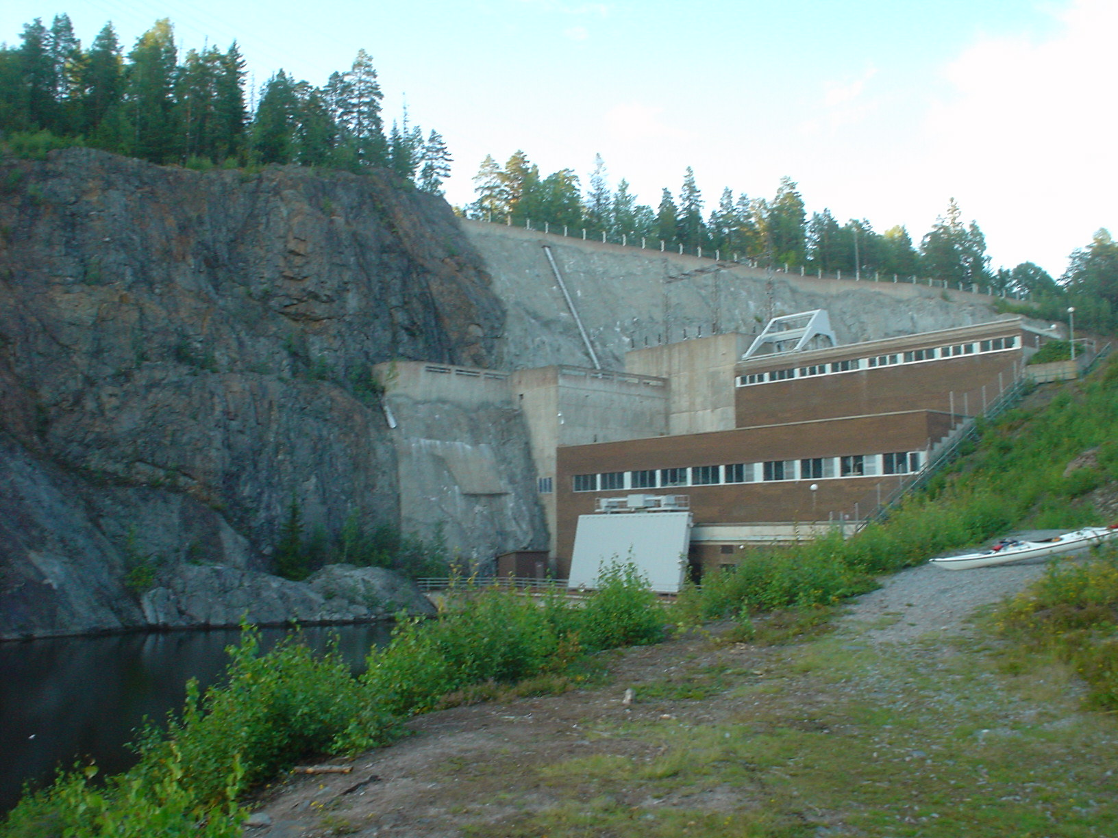 Melo hydroelectric power plant in Nokia, Finland